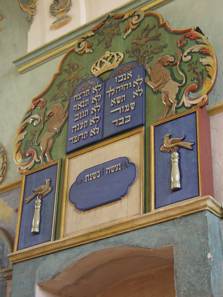 Synagogue in Łańcut